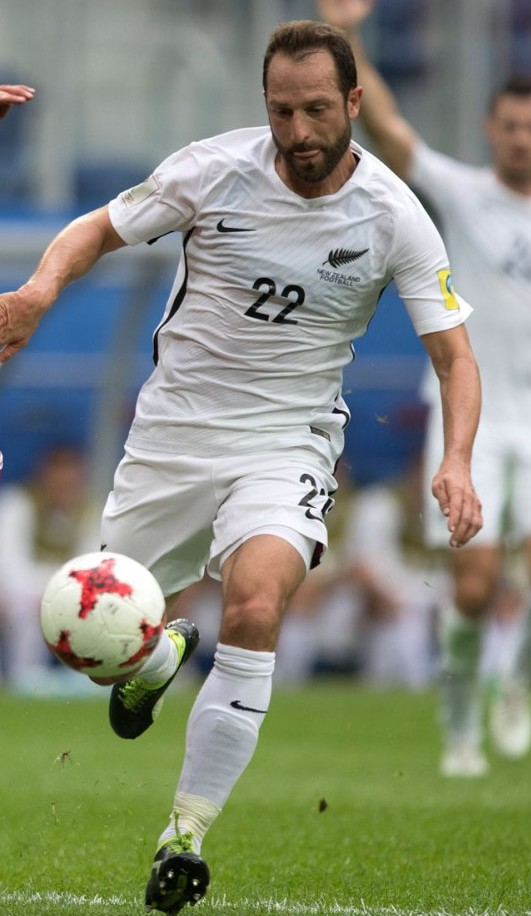 Fyodor Smolov Andrew Durante